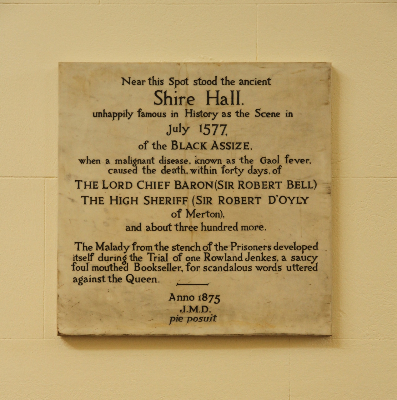 Tablet on a wall inside County Hall, New Road, Oxford, installed in 1875 to commemorate the Black Assize of Oxford 1577